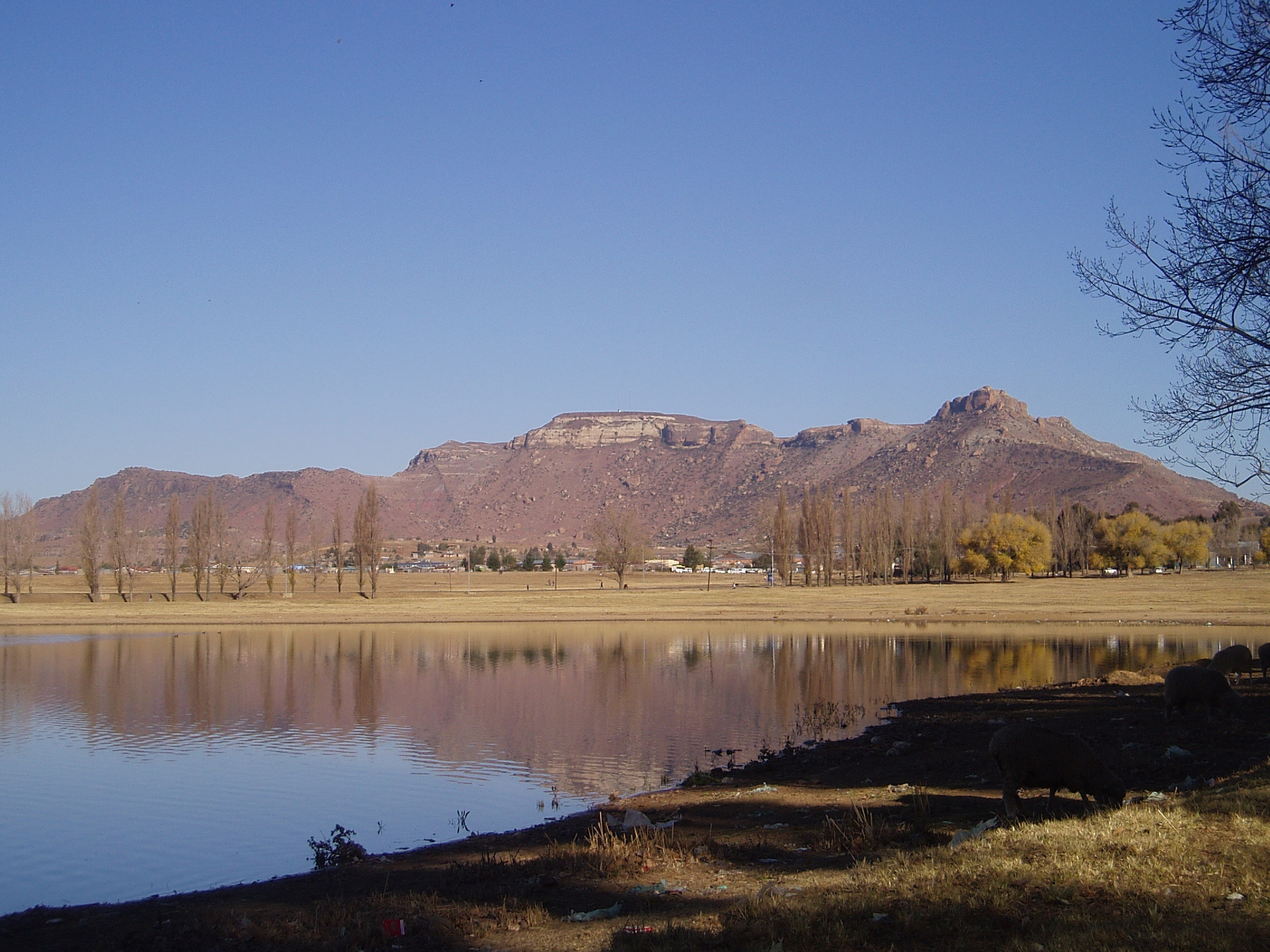 A view of Likhoele (elevation 6,915 feet), Mafeteng's second highest mountain, from the reservoir by Kingsgate Primary School